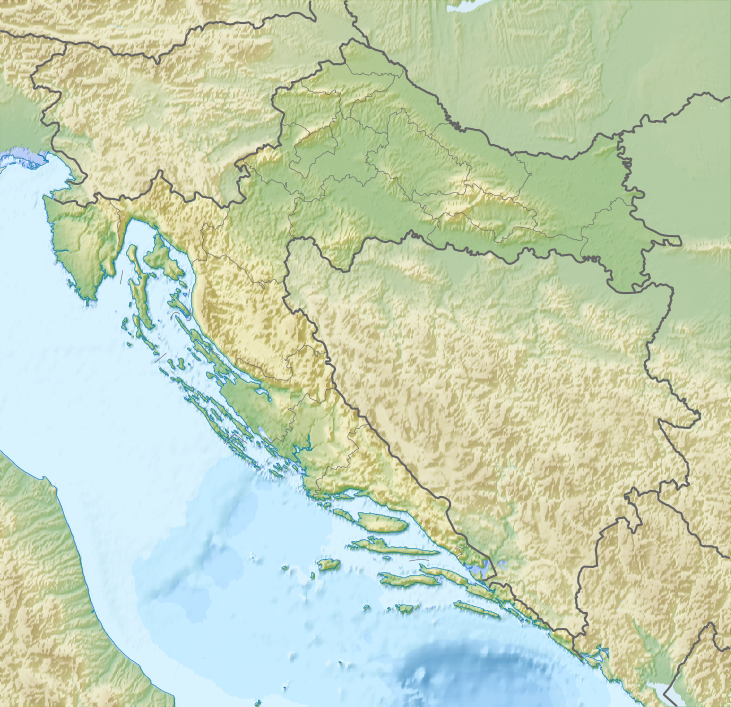 Relief map of Croatia.